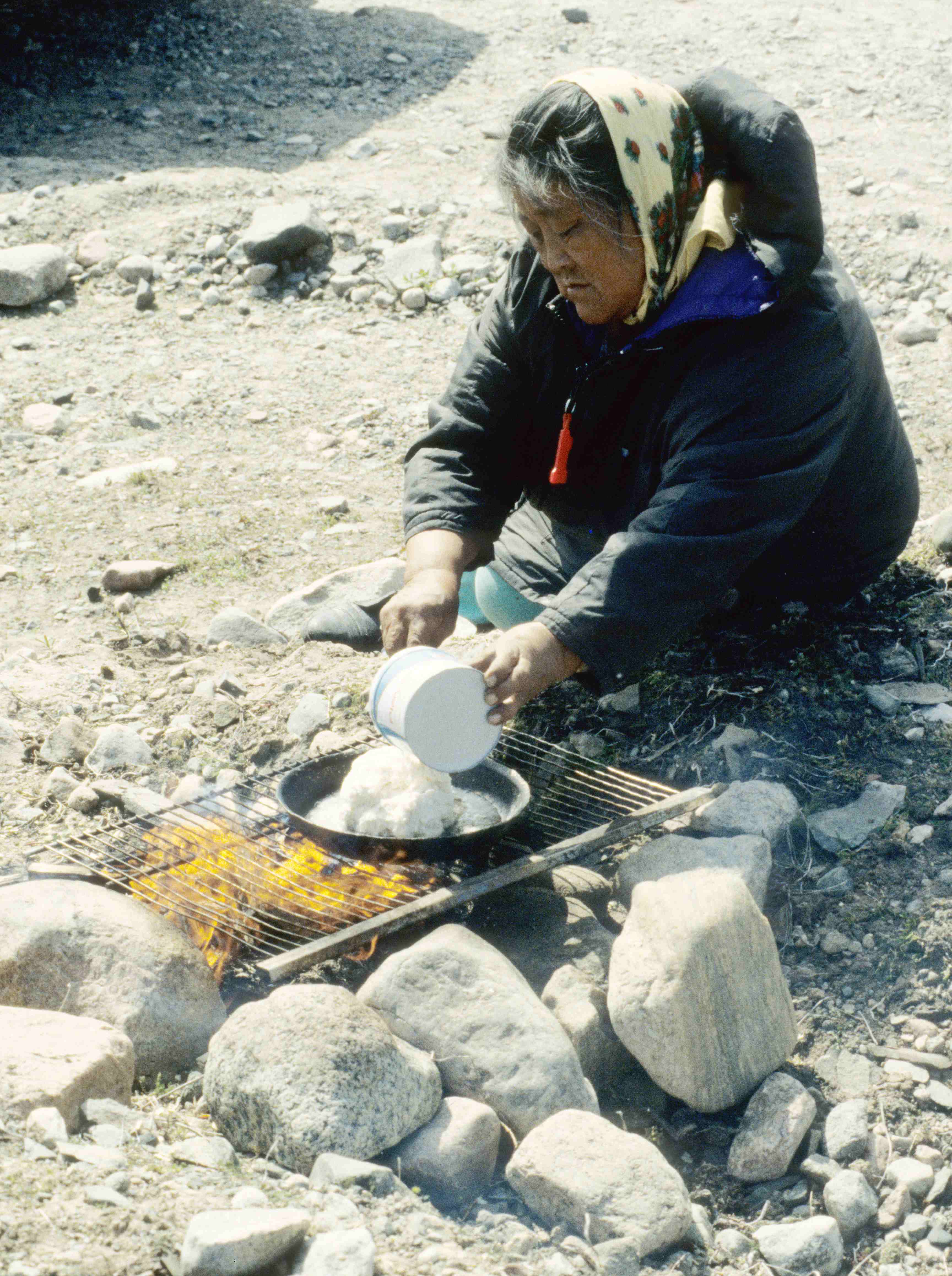 An Inuk woman preparing bannock. Bannock baking competition